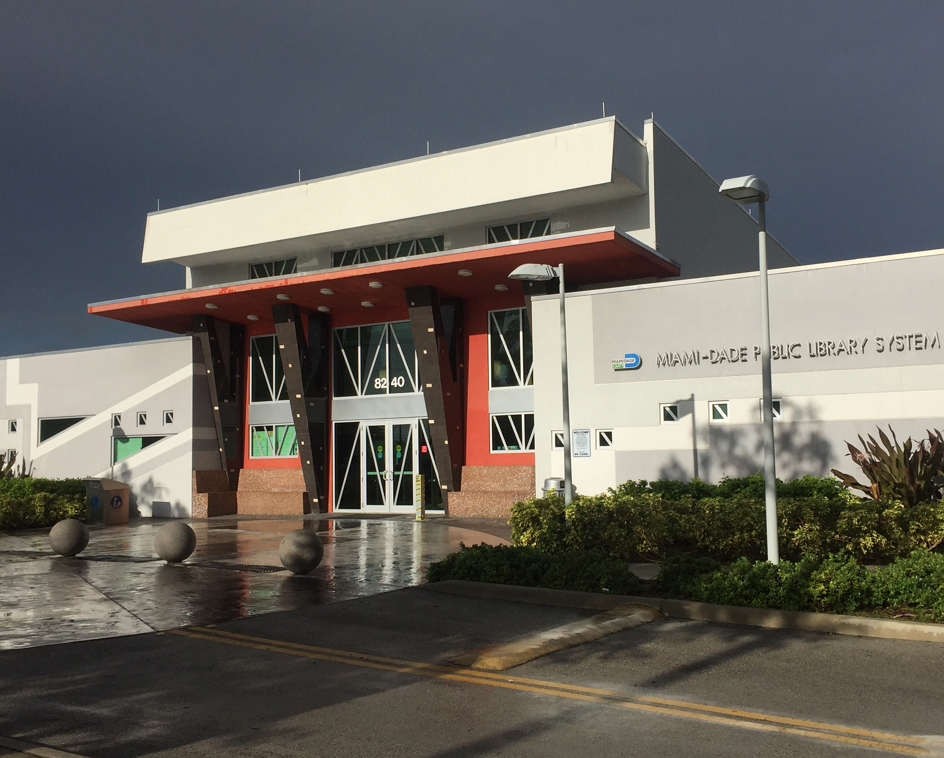 Outside view of Arcola Lakes Branch Library that is part of the Miami-Dade Public Library System